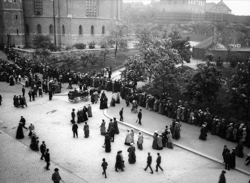 The funeral of Henrik Ibsen in Trefoldighetskirken Oslo.